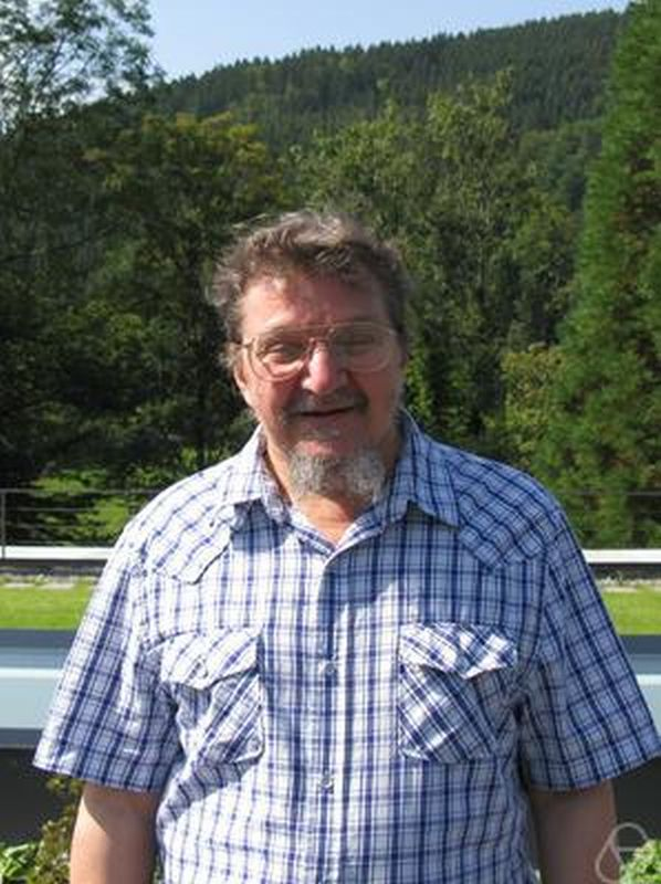 Askold Khovanskii, Oberwolfach 2011